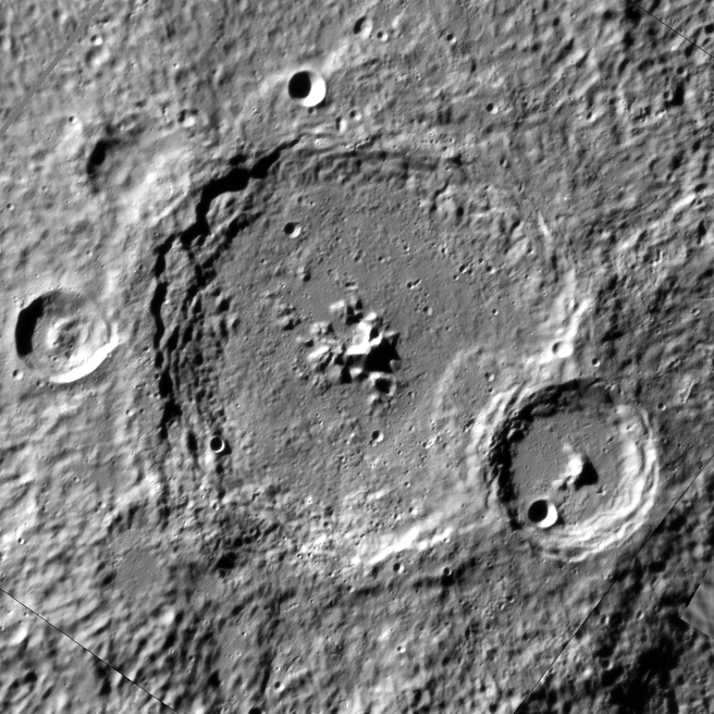 Crater Chopin on Mercury. Mosaic of photos by MESSENGER (mainly the photo EN0230667049M, taken 25 November 2011 from the distance 11.1 thousand km). Image size is 220×220 km; north is up.